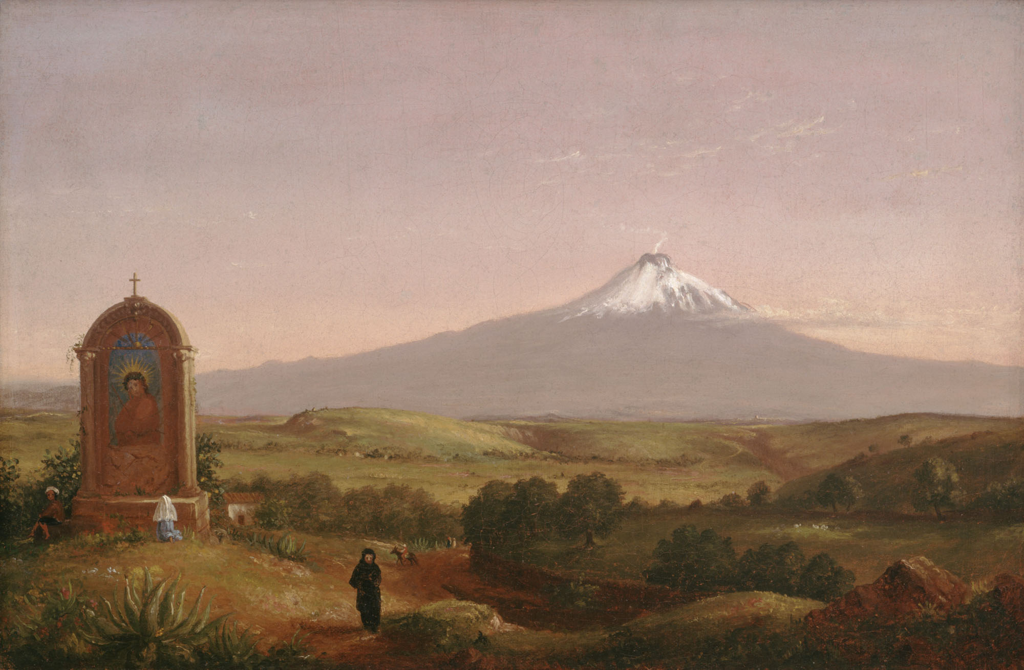 Mt. Aetna by Sarah Cole, oil on canvas, 11.5 x 17.5 in, Albany Institute of History and Art